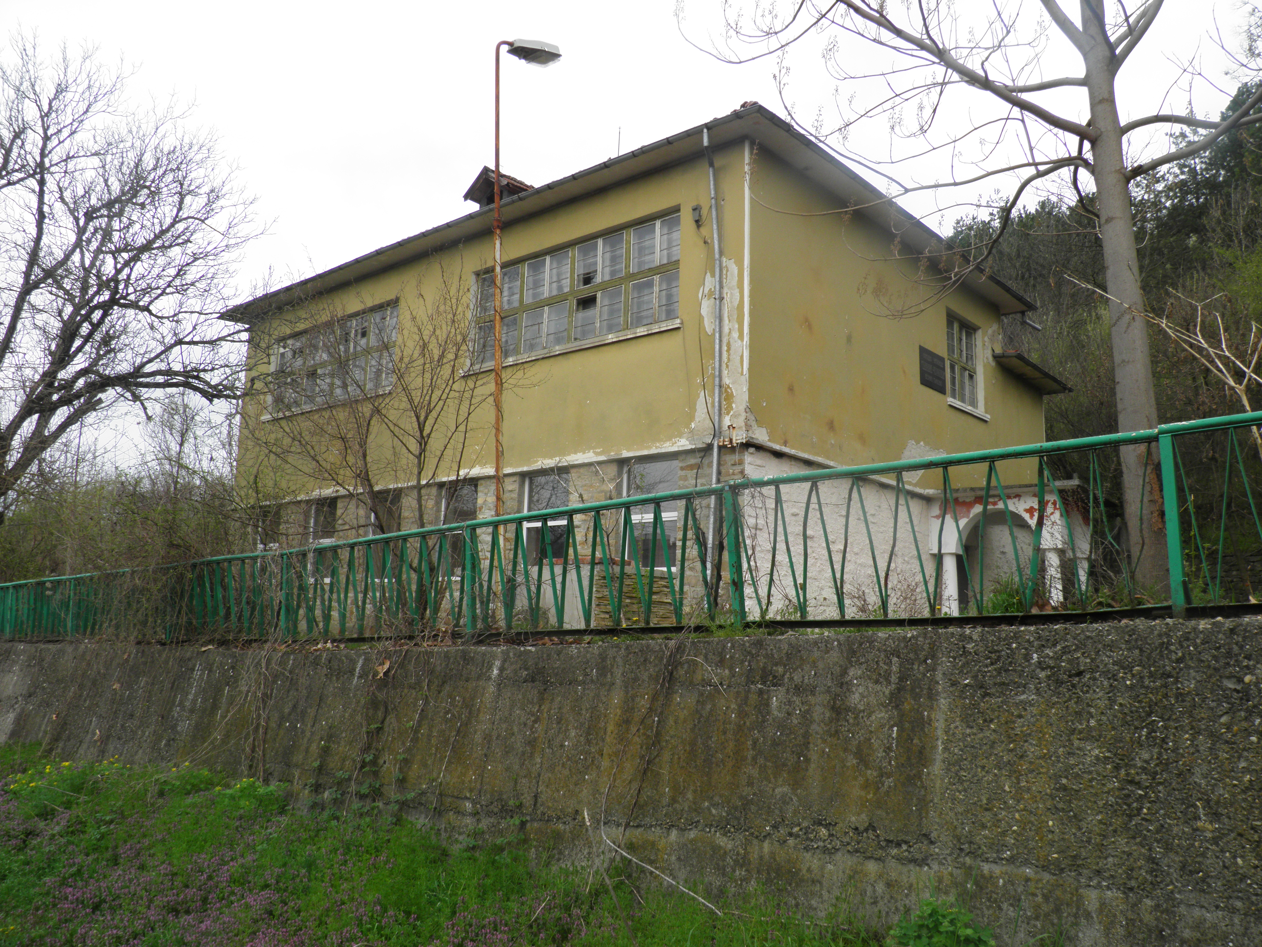 Читалище Съзнание,Чолаковци